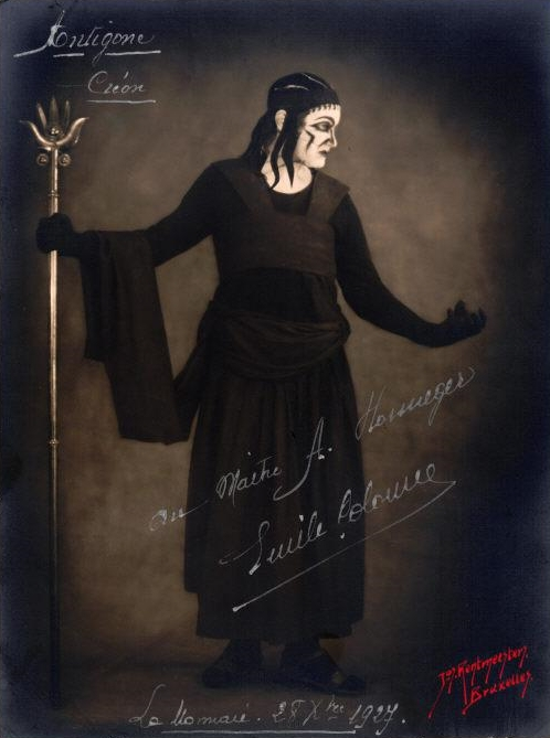 Émile Colonne as Créon in Honegger's Antigone at the premiere on 28 September 1927 at the Théâtre Royal de la Monnaie in Brussels. Music by Arthur Honegger, libretto by Jean Cocteau, costumes by Coco Chanel, sets by Pablo Picasso.